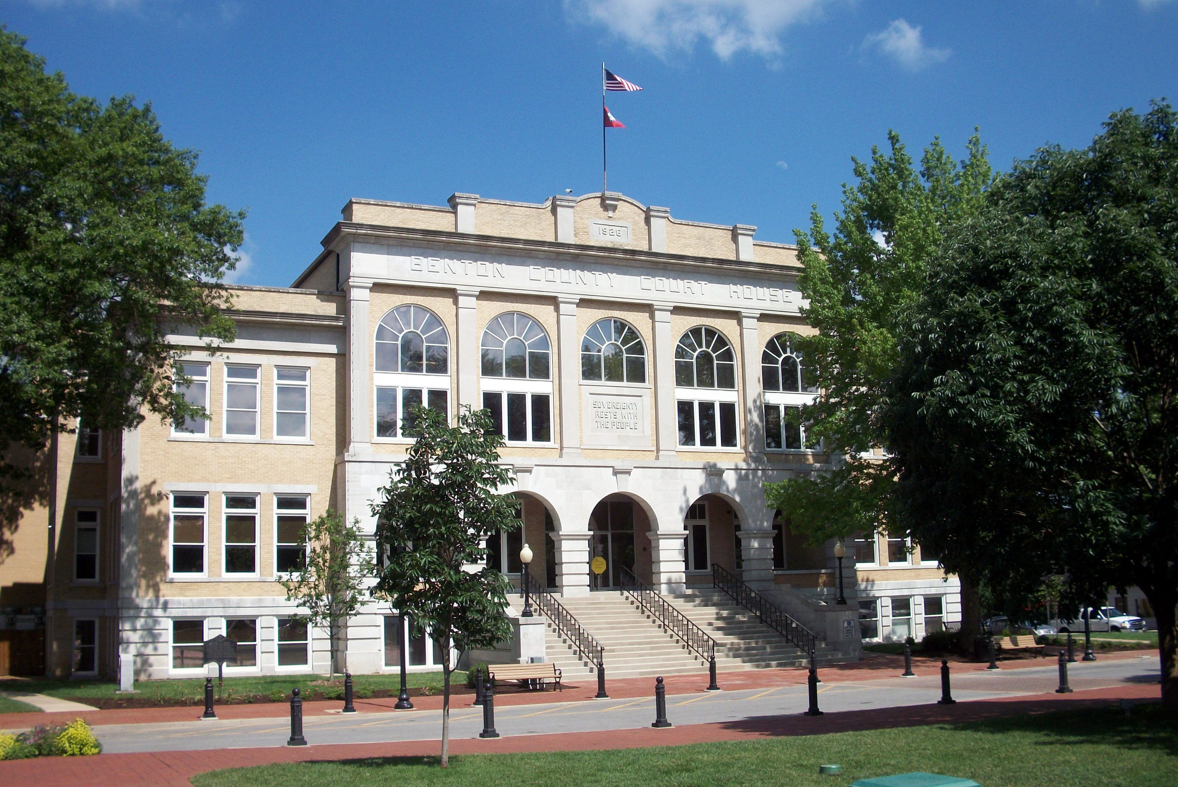 Benton County Courthouse, Bentonville, Arkansas. Located at 106 SE. A Street.